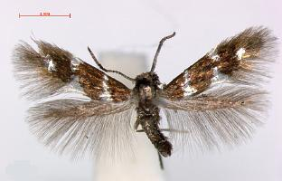 Antispila voraginlla